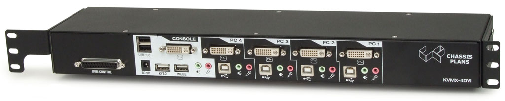 Chassis Plans Industrial KVM w/ DVI and USB